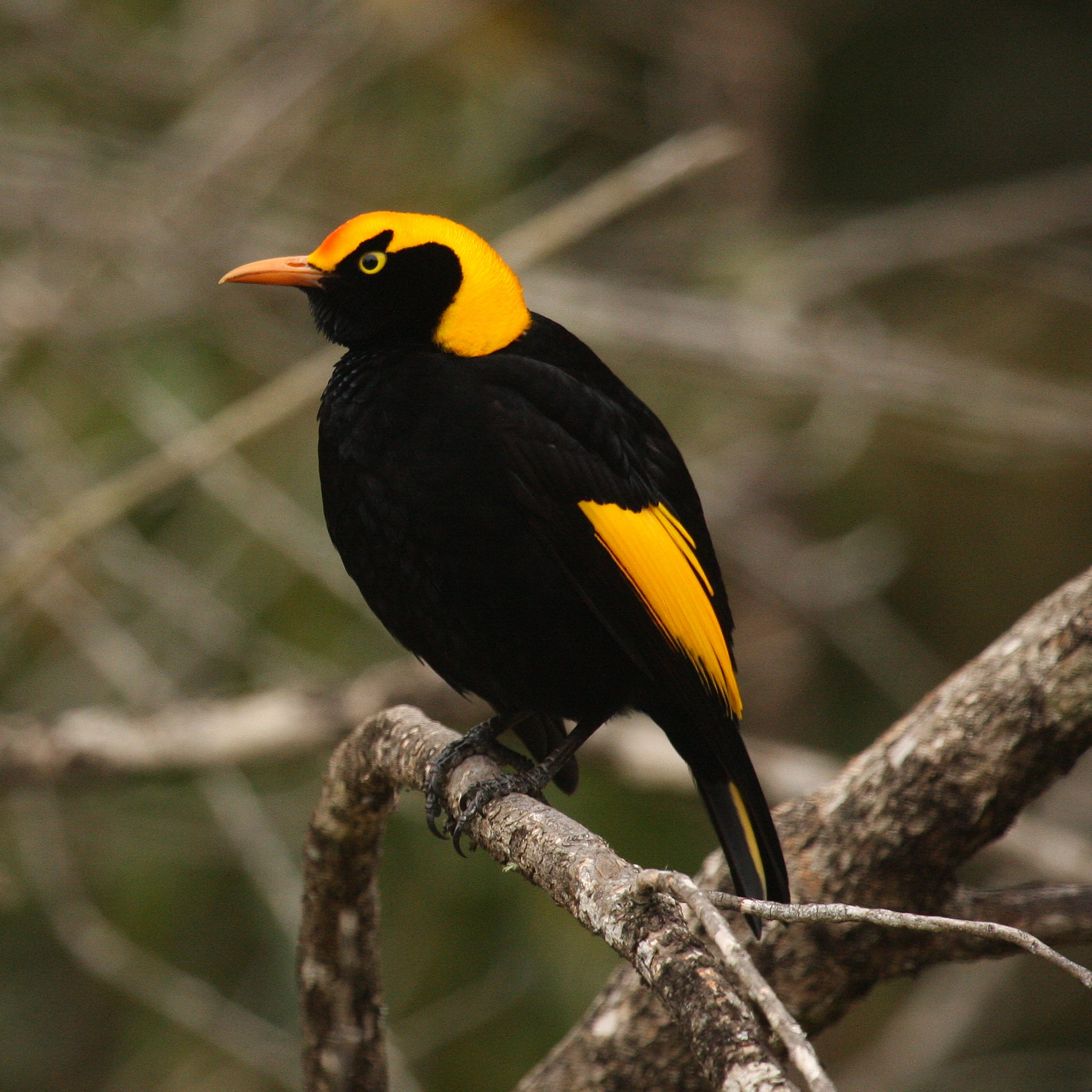 A male Regent Bowerbird in Lamington National Park, Queensland, Australia.